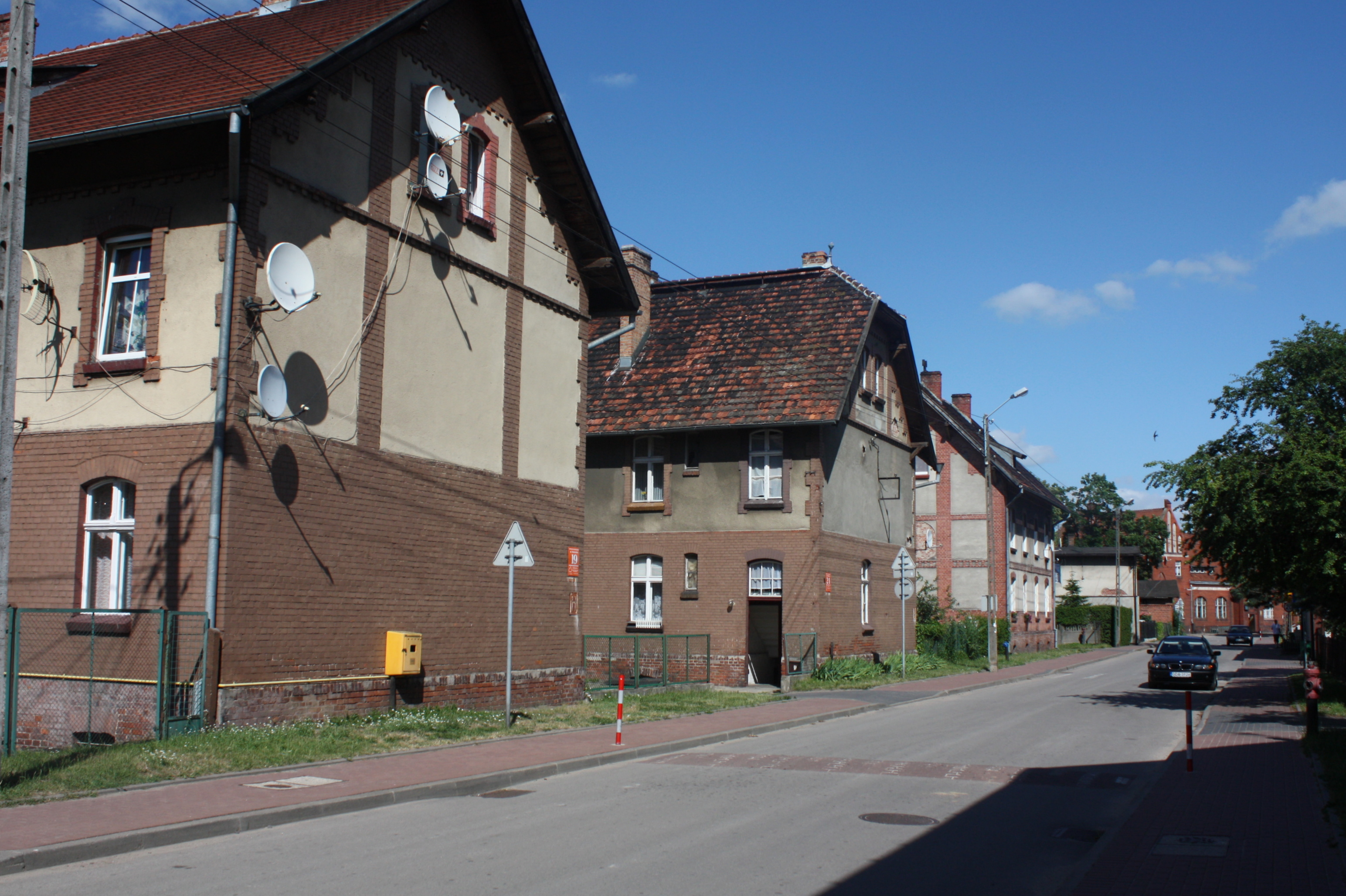 Pszczółki, Kościelna Street